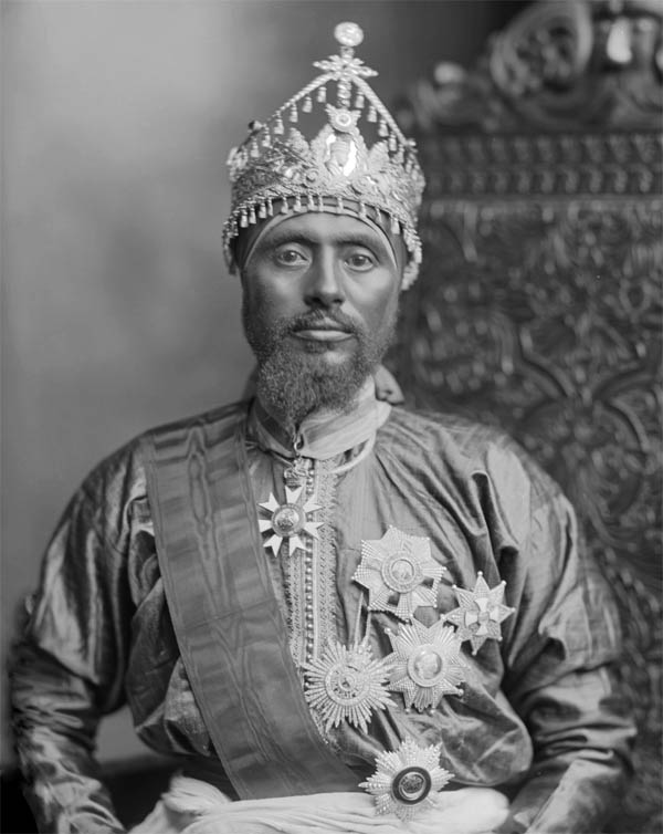 Ethiopian General & Governor of Harar, cr. Ras 1890; father of Emperor Haile Selassie I., on a visit to England for the Coronation of King Edward VII; appointment as a Knight Commander of 'The Most Distinguished Order of St. Michael & St. George' (K.C.M.G.), cr. 12 August 1902.Costume: Gold coronet bearing crowned effigy of Emperor Menelik II; Ethiopian ceremonial silk shirt.